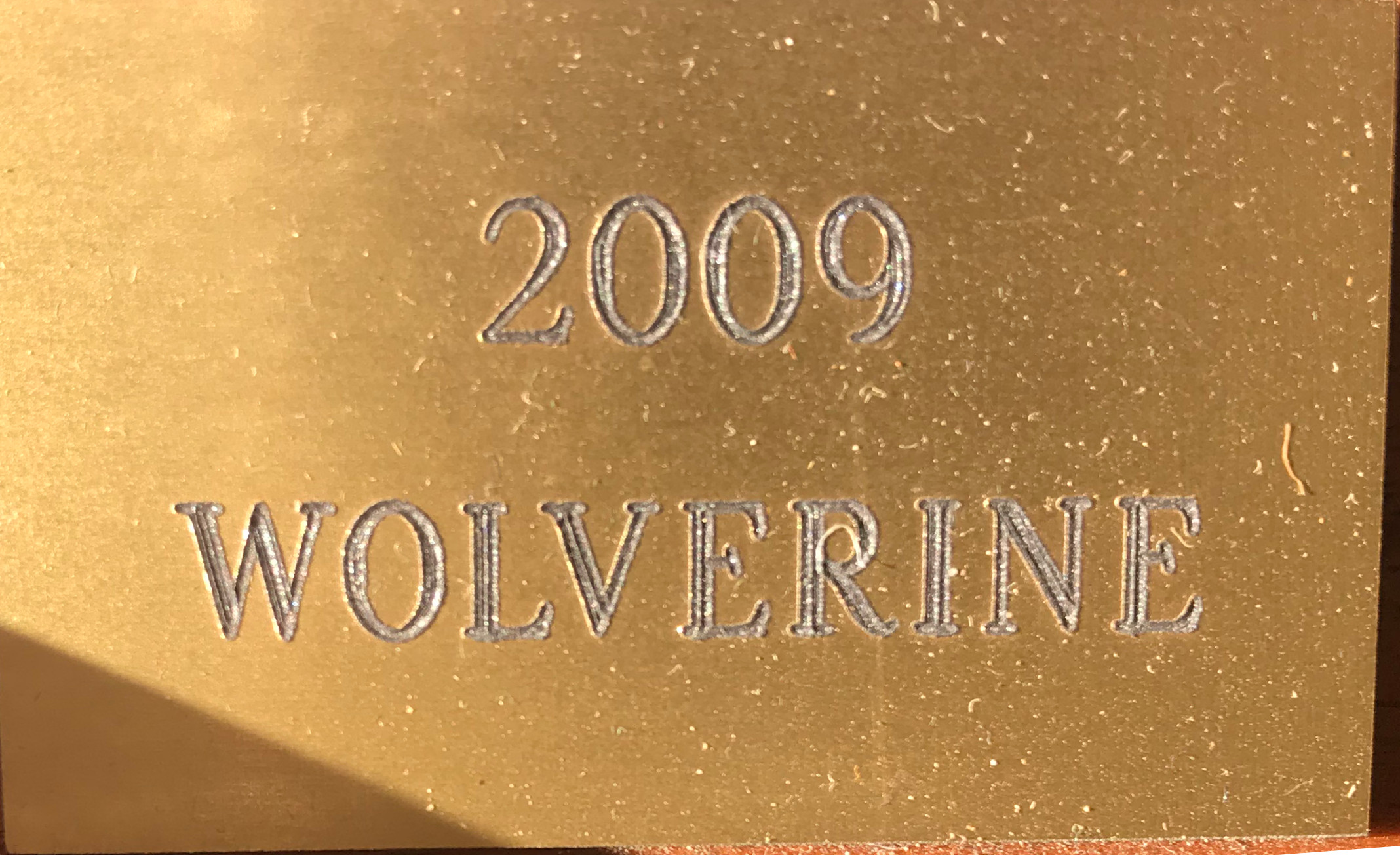 Patch on the Trophy